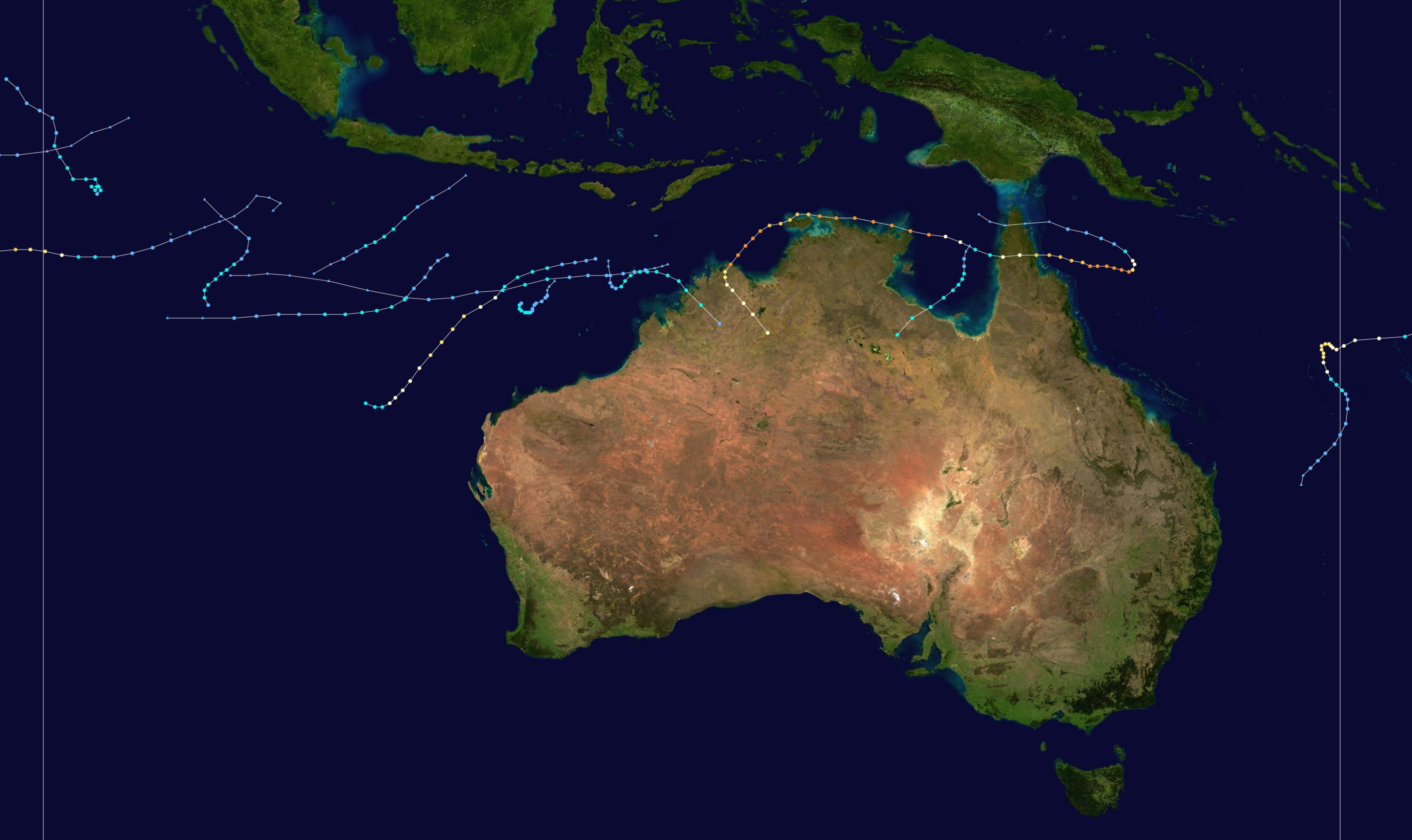 This map shows the tracks of all tropical cyclones in the 2004-05 Australian region cyclone season. The points show the location of each storm at 6-hour intervals. The colour represents the storm's maximum sustained wind speeds as classified in the Saffir-Simpson Hurricane Scale (see below), and the shape of the data points represent the type of the storm. Saffir–Simpson hurricane wind scale Tropical depression≤38 mph≤62 km/h Category 3111–129 mph178–208 km/h Tropical storm39–73 mph63–118 km/h Category 4130–156 mph209–251 km/h Category 174–95 mph119–153 km/h Category 5≥157 mph≥252 km/h Category 296–110 mph154–177 km/h Unknown Storm typeTropical cycloneSubtropical cycloneExtratropical cyclone / Remnant low / Tropical disturbance